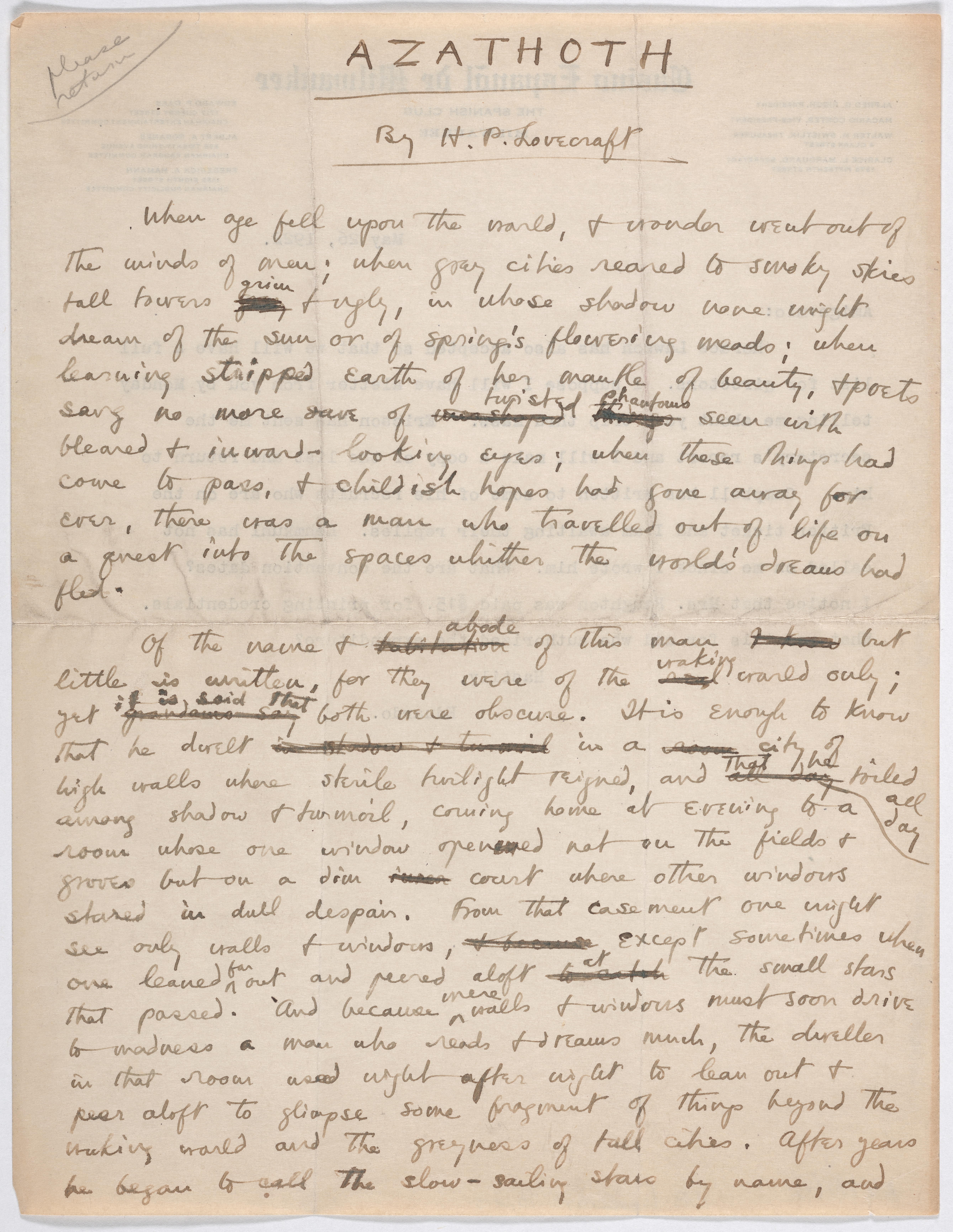 Manuscript page of Howard P. Lovecraft's never completed novel Azathoth; written 1922; first published 1938